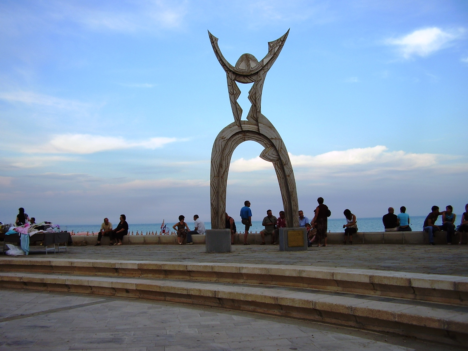 A sculpture at Metaponto Lido.